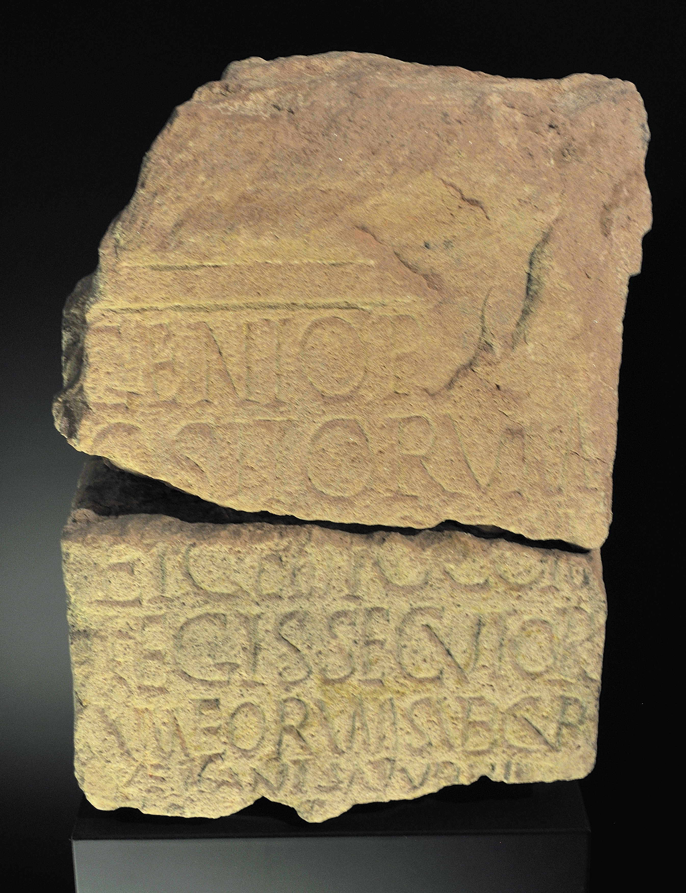 Picture taken in the Roman history museum in Osterburken.